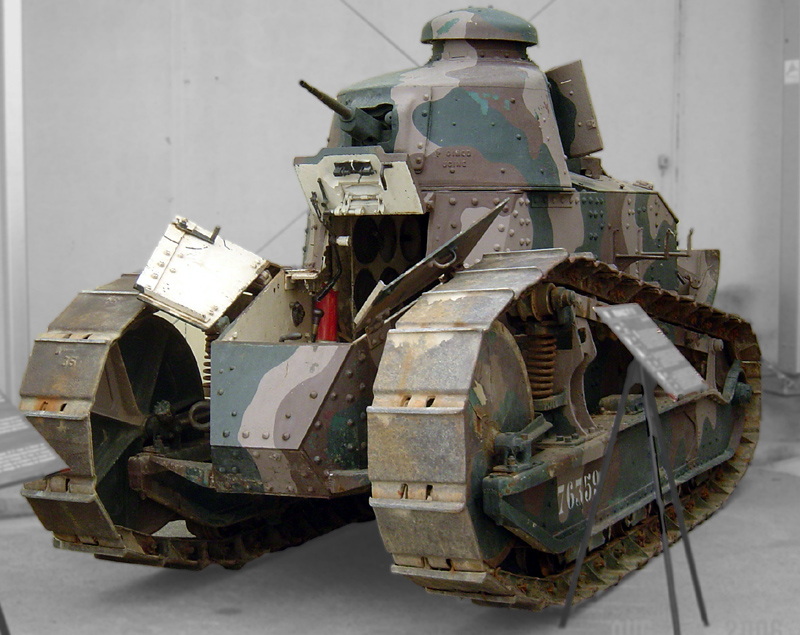 Renault FT on display at the Musée des Blindés in Saumur. The picture taken August 8, 2006. This is the 1931 modification of the FT, incorporating the Reibel machine gun in place of the M1914 Hotchkiss.